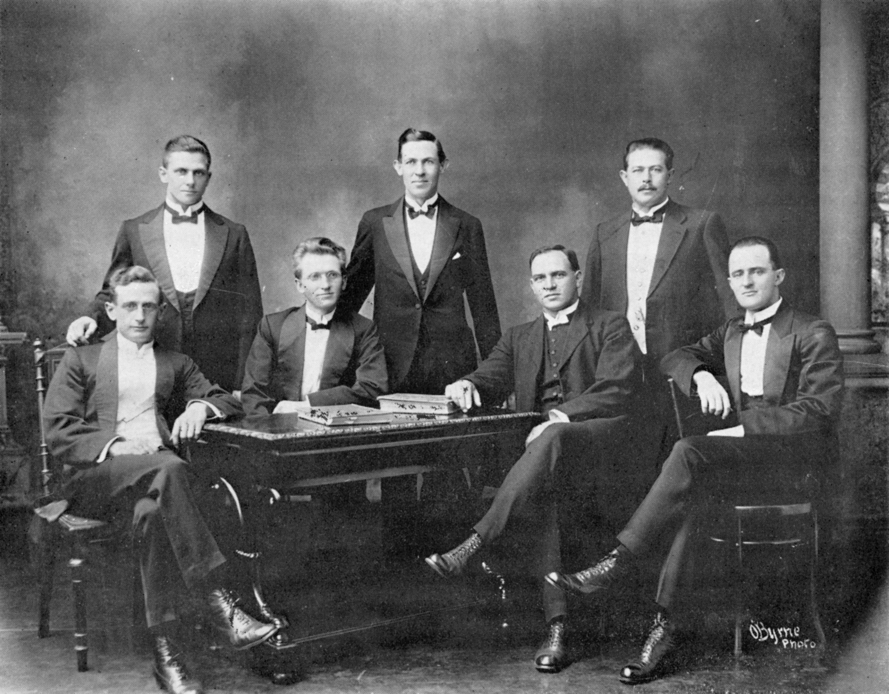 1st executive council of the Afrikaner Broederbond in 1918.Standing left to right: D. H. C. du Plessis, J. Combrink, H. le R. Jooste.Sitting: L.J. Erasmus (sec), H.J. Klopper (chair), Ds W. Nicol (V.chair), J. E. Reeler (treasurer).